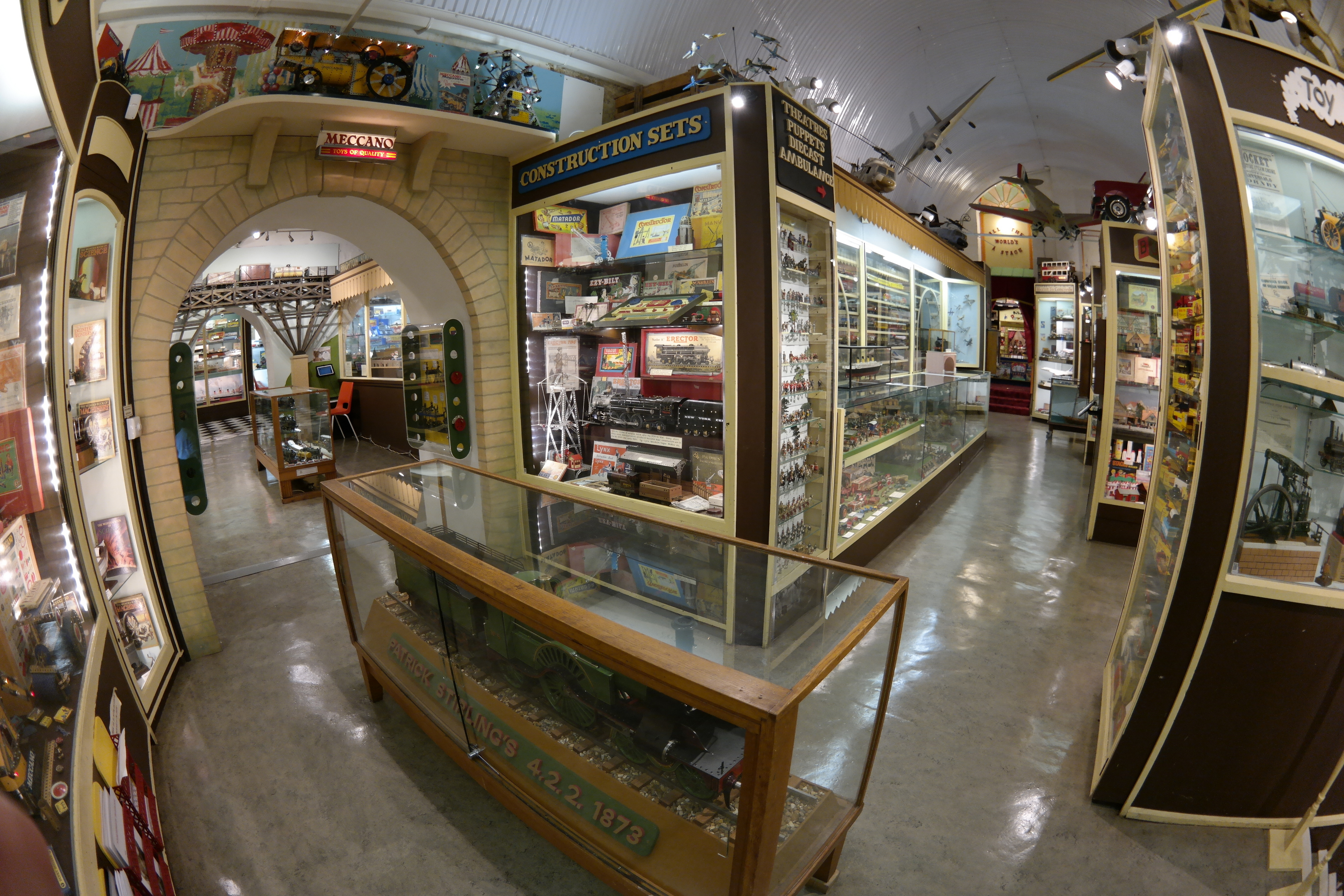 The view just inside the museum's ticketed area